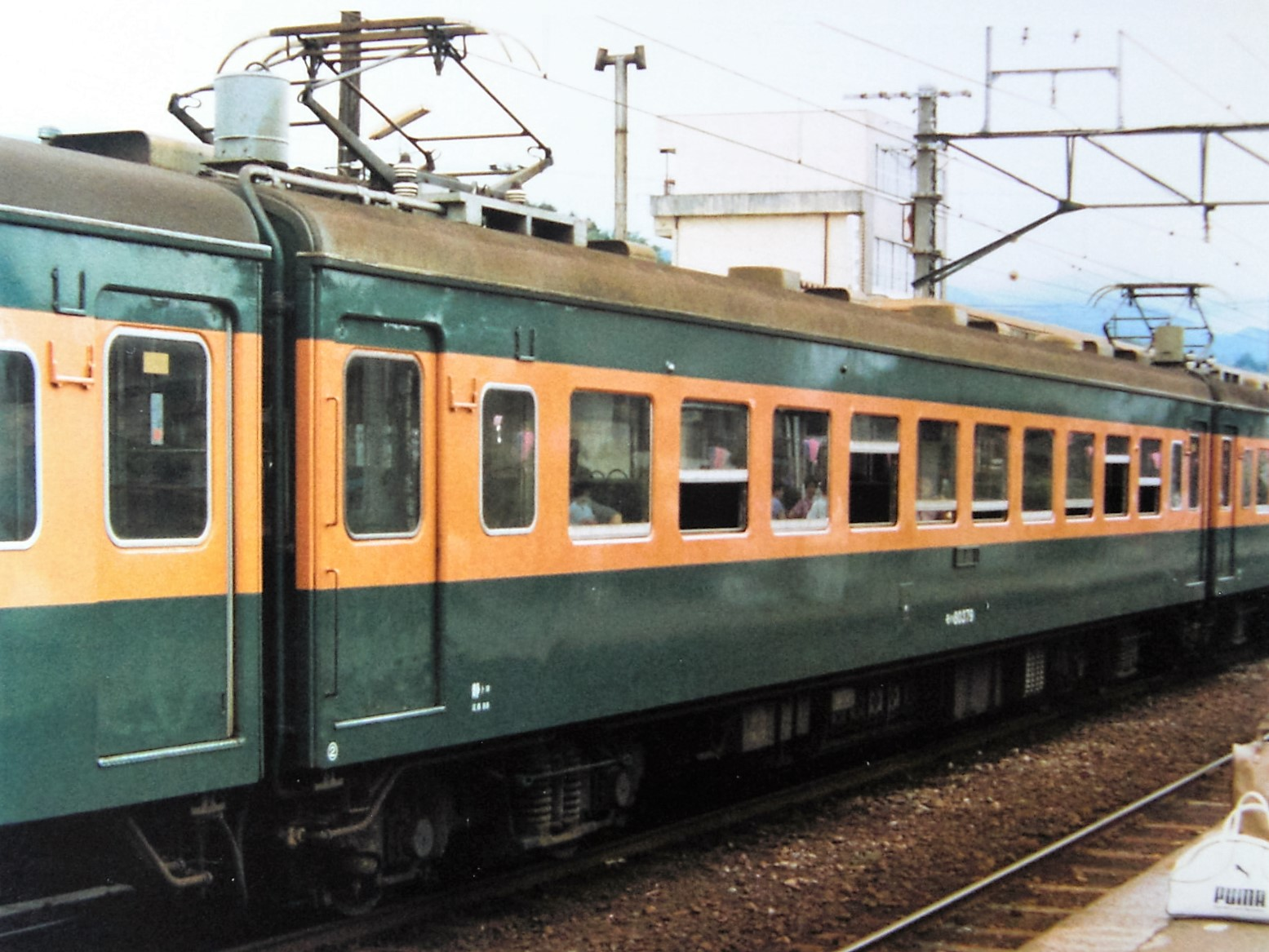 JNR 80 series EMU car MoHa 80379